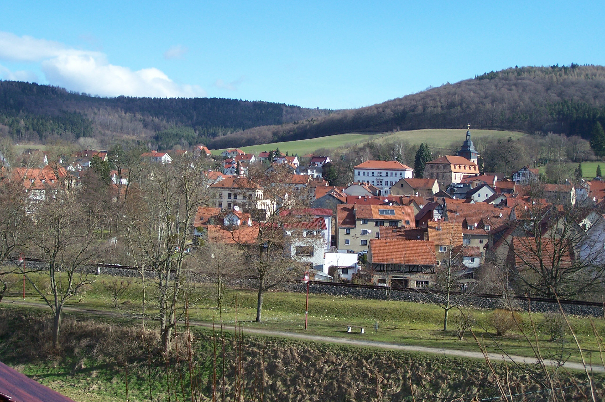 The centre of Stadtlengsfeld city.